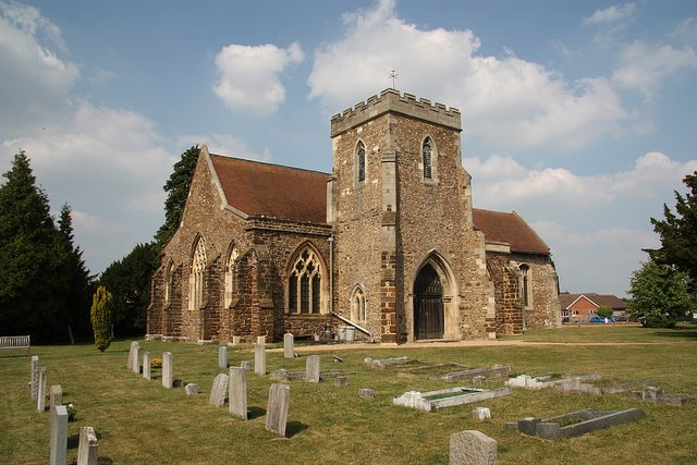 St.Andrew's church Largely 14th century Decorated church with a south tower-porch